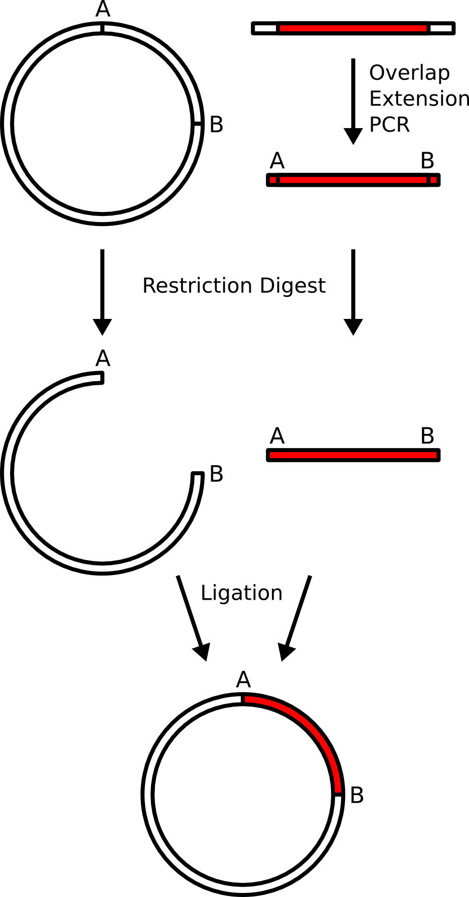 Subcloning cartoon